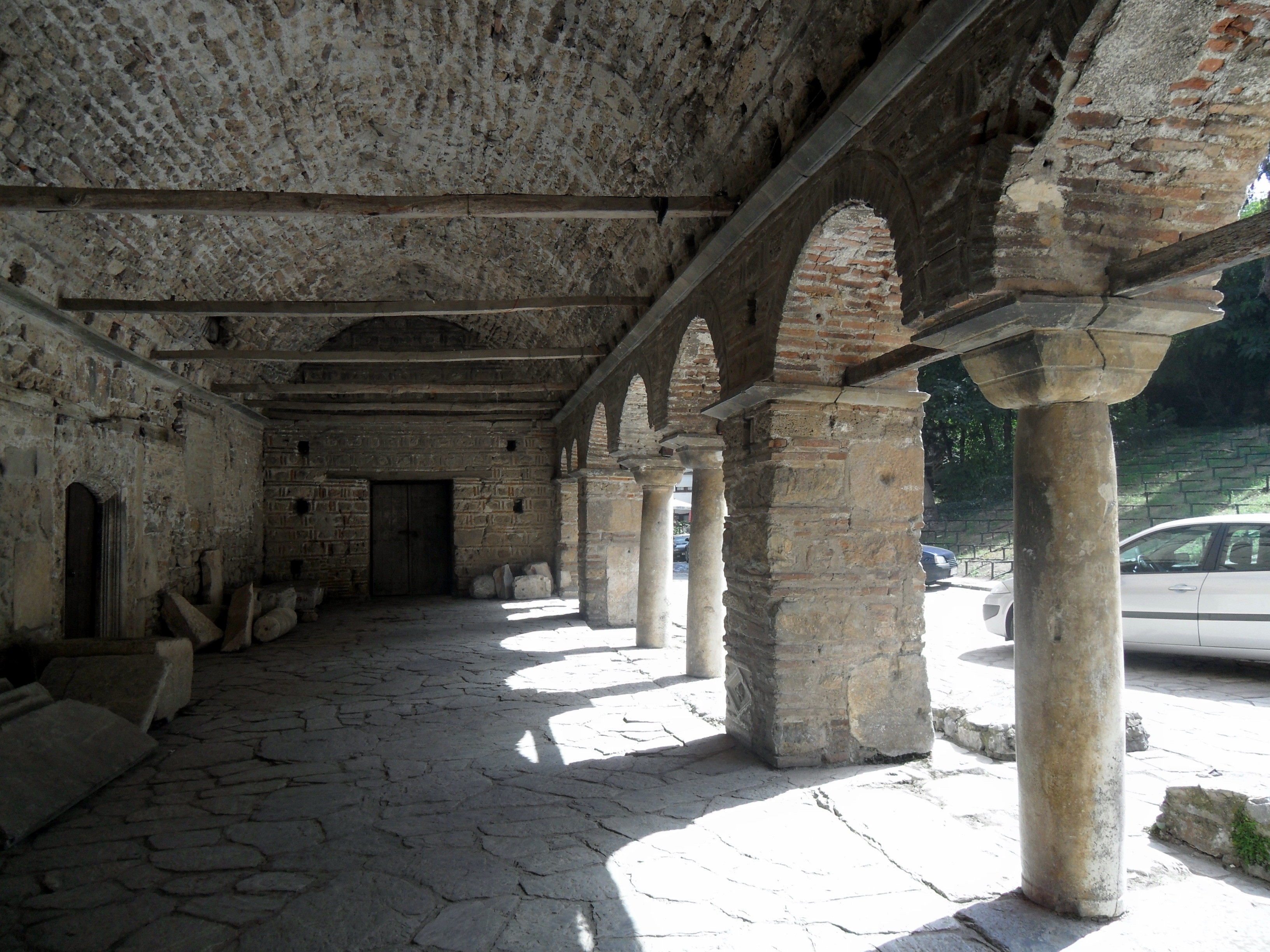 Church of St. Sophia in Ohrid